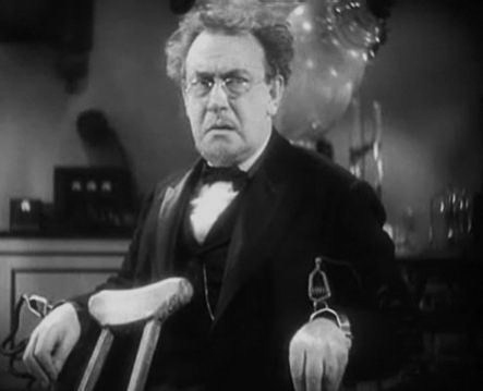 Harry Beresford in Doctor X - trailer (cropped screenshot)